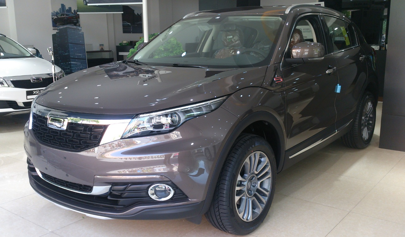 Qoros 5 SUV photographed in Shanghai, China.